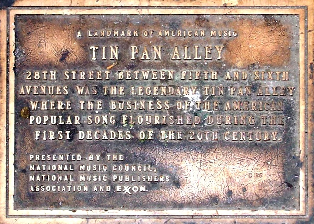 Plaque for Tin Pan Alley in New York. The plaque reads:A landmark of American MusicTin Pan Alley28th Street between Fifth and Sixth Avenus was the legendary Tin Pan Alley where the business of the American popular song flourished during the first decades of the 20th century.